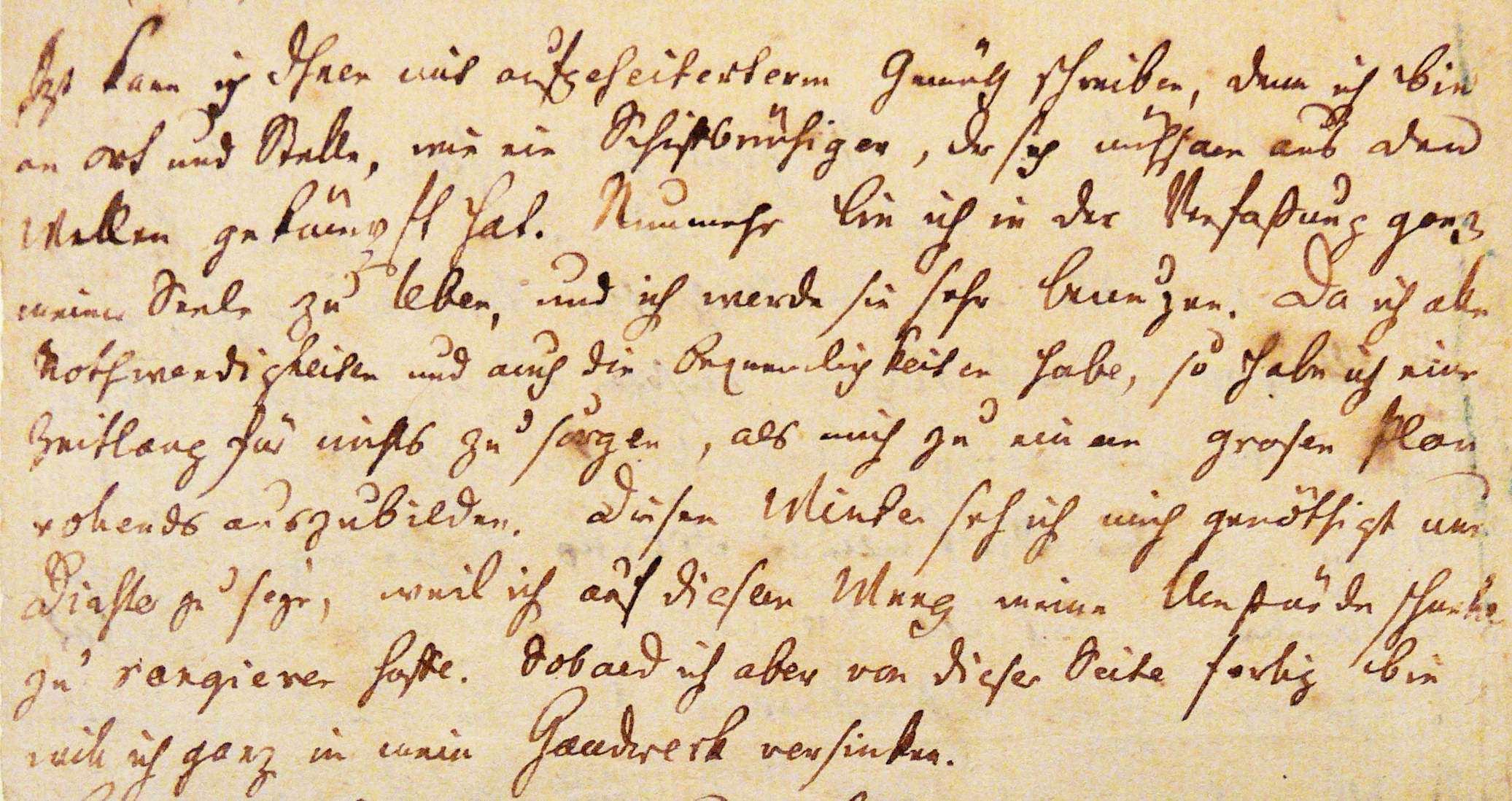 Brief Friedrich Schillers an Christian Friedrich Schwan, Bauerbach, 8. Dezember 1782 Collection: Reiss-Engelhorn-Museen, MannheimNote: This letter is written in a mix of German Kurrent and Roman script. Most obvious is the use of the Roman letter e.